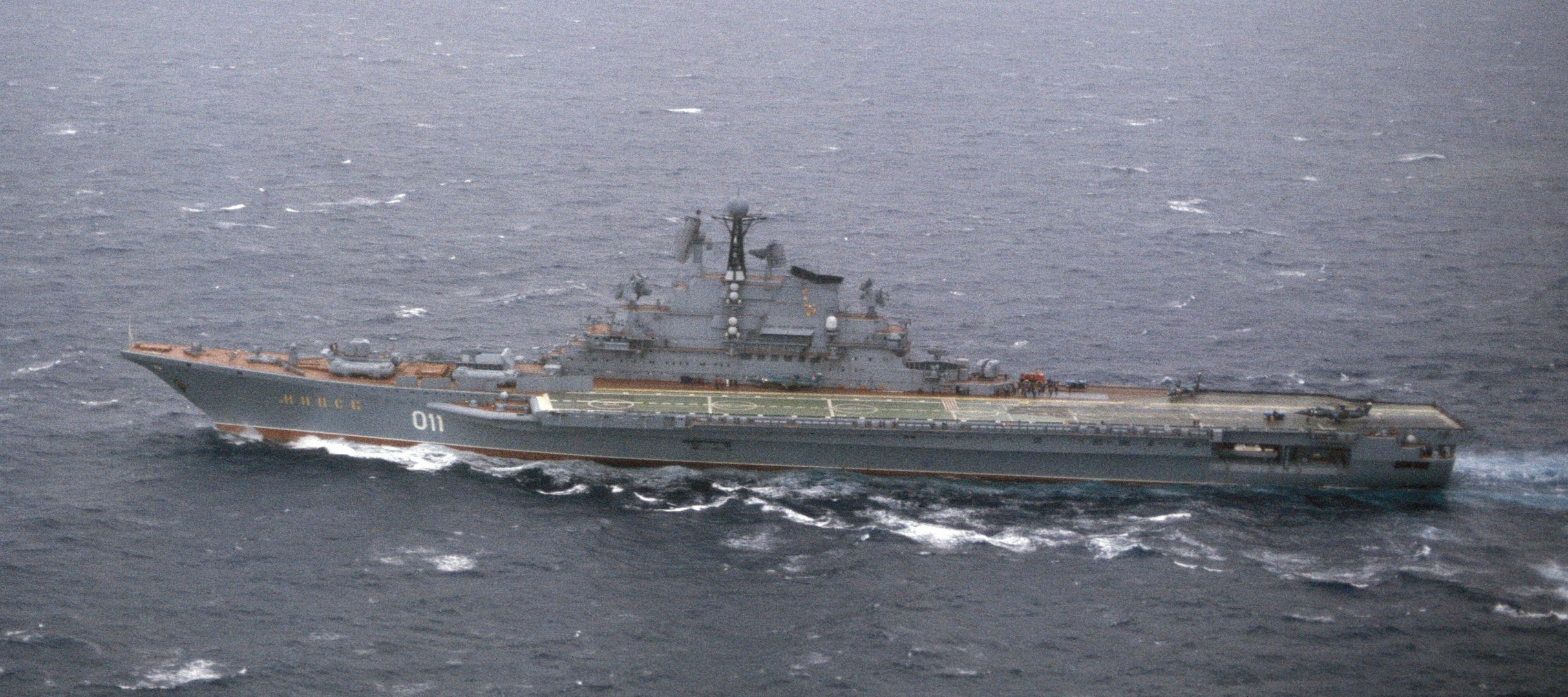 An aerial port beam view of the Soviet Kiev class aircraft carrier Minsk underway.